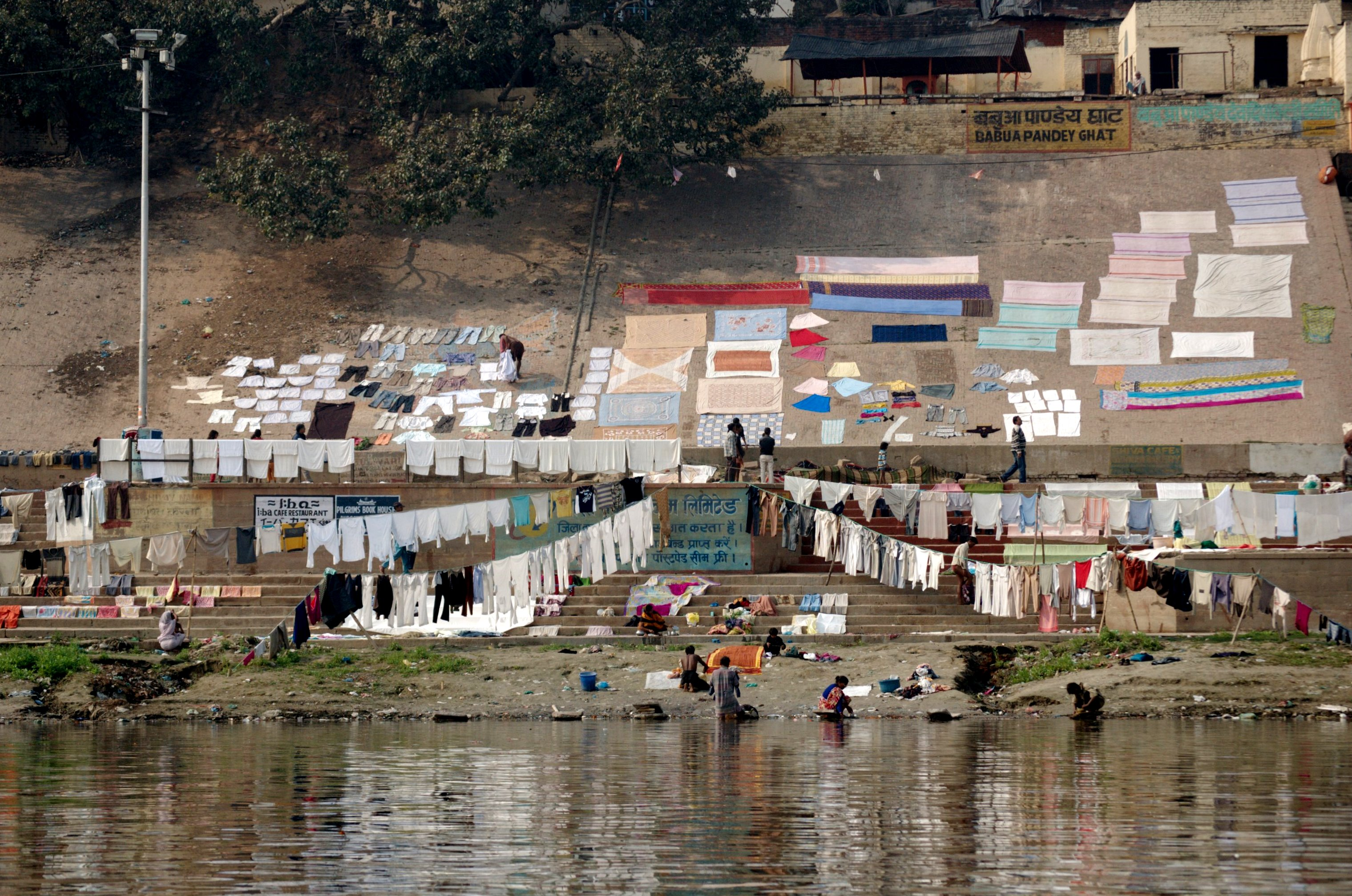 Washing clothes by the Ganges, Varanasi, at Babua Pandey Ghat! more laundry